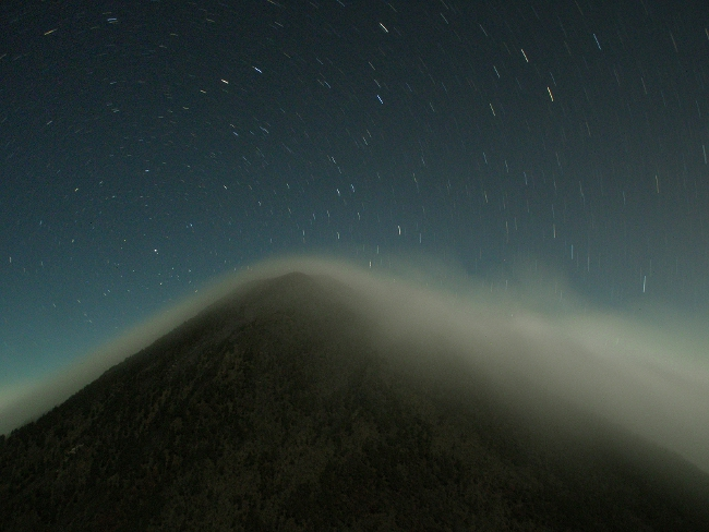 Volcan de Acatenango, seen from Volcan de Fuego. The north star is visible behind the volcano. 8 minute exposure.